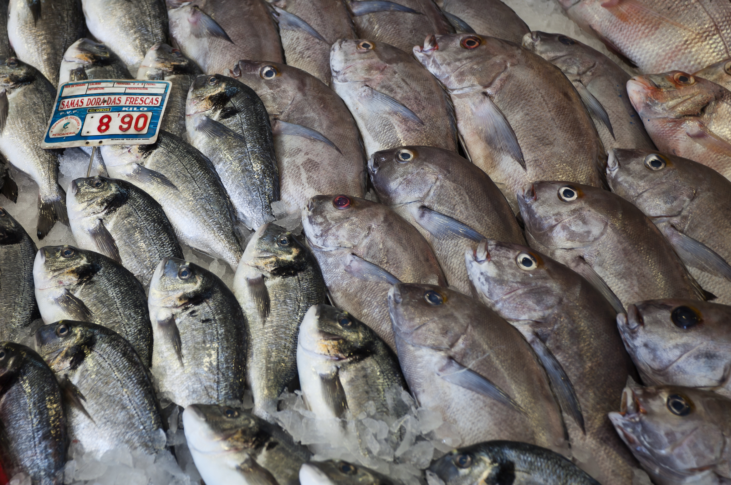 Sparus aurata and Plectorhinchus mediterraneus. Playa Blanca, Lanzarote, Canary Islands, Spain